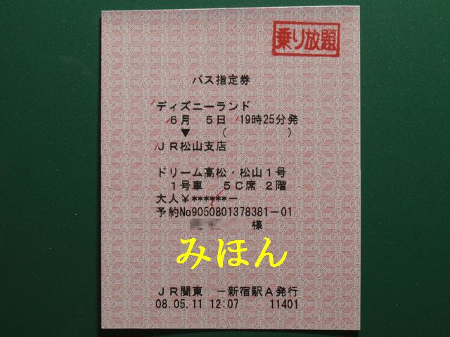 Highway Bus "Dream Takamatsu Matsuyama" Ticket